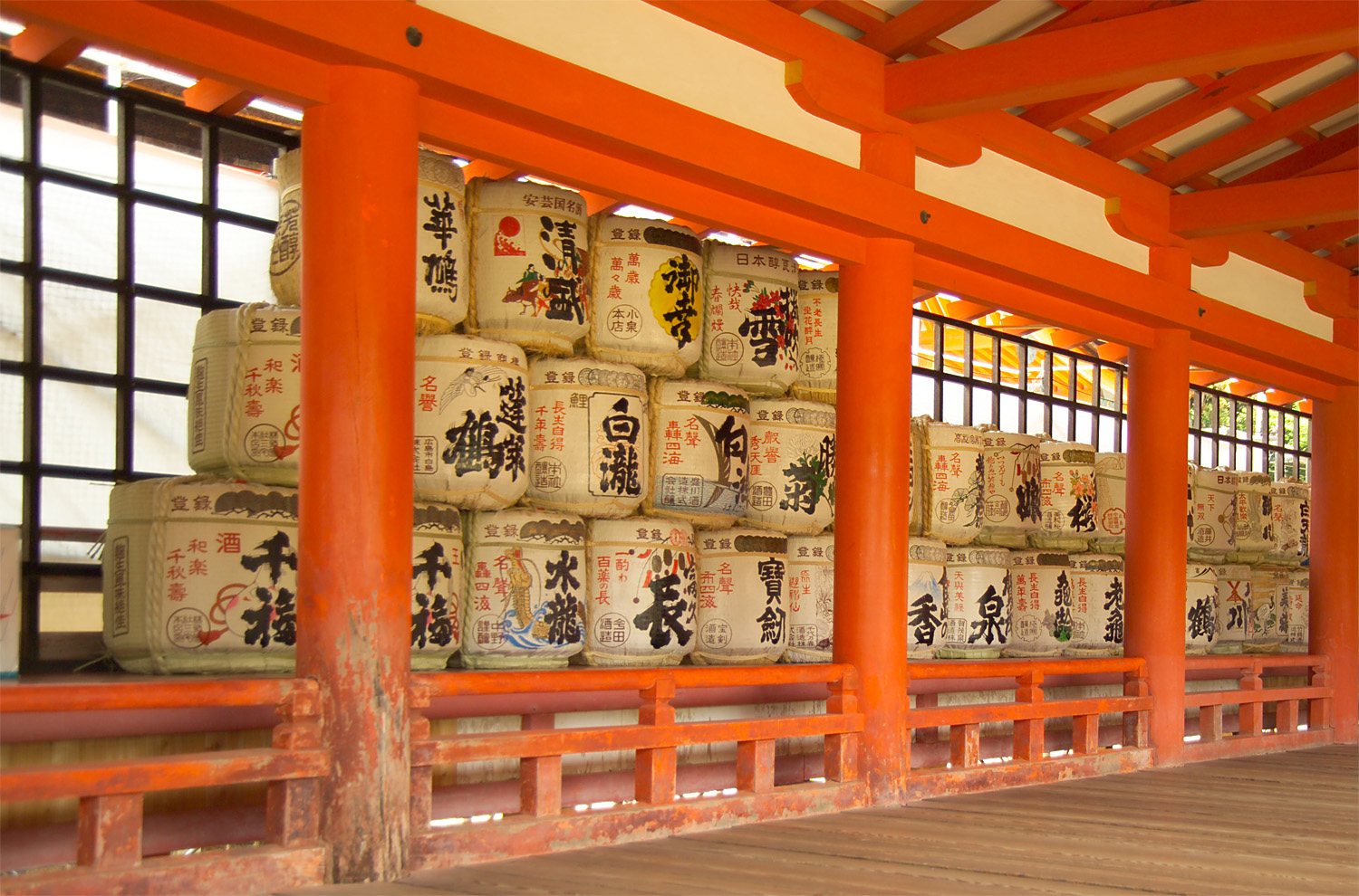 Offerings of sake in building at Itsukushima Shrine, Miyajima, Hiroshima Prefecture, Japan. I took this photo and contribute my rights in the file to the public domain; people and organizations retain rights to images in it.